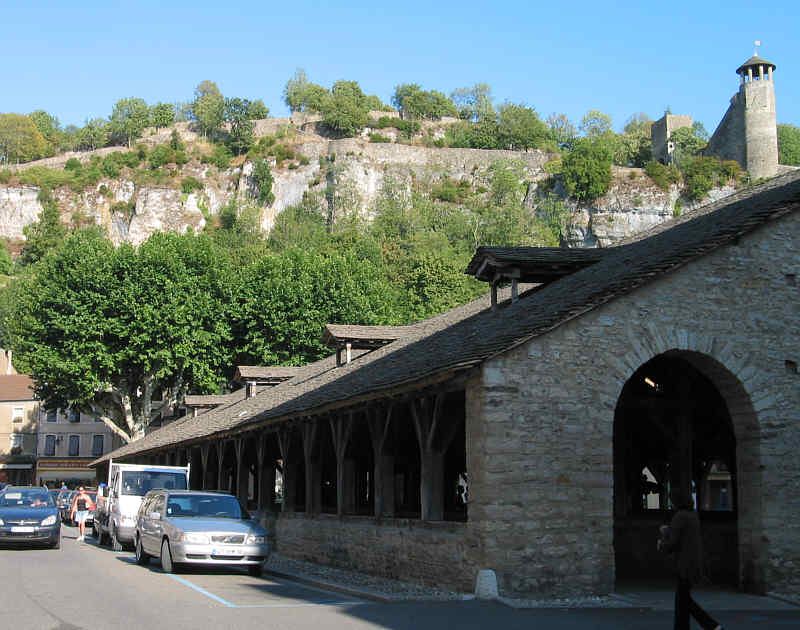 Medieval market hall in Crémieu (Isère, France)